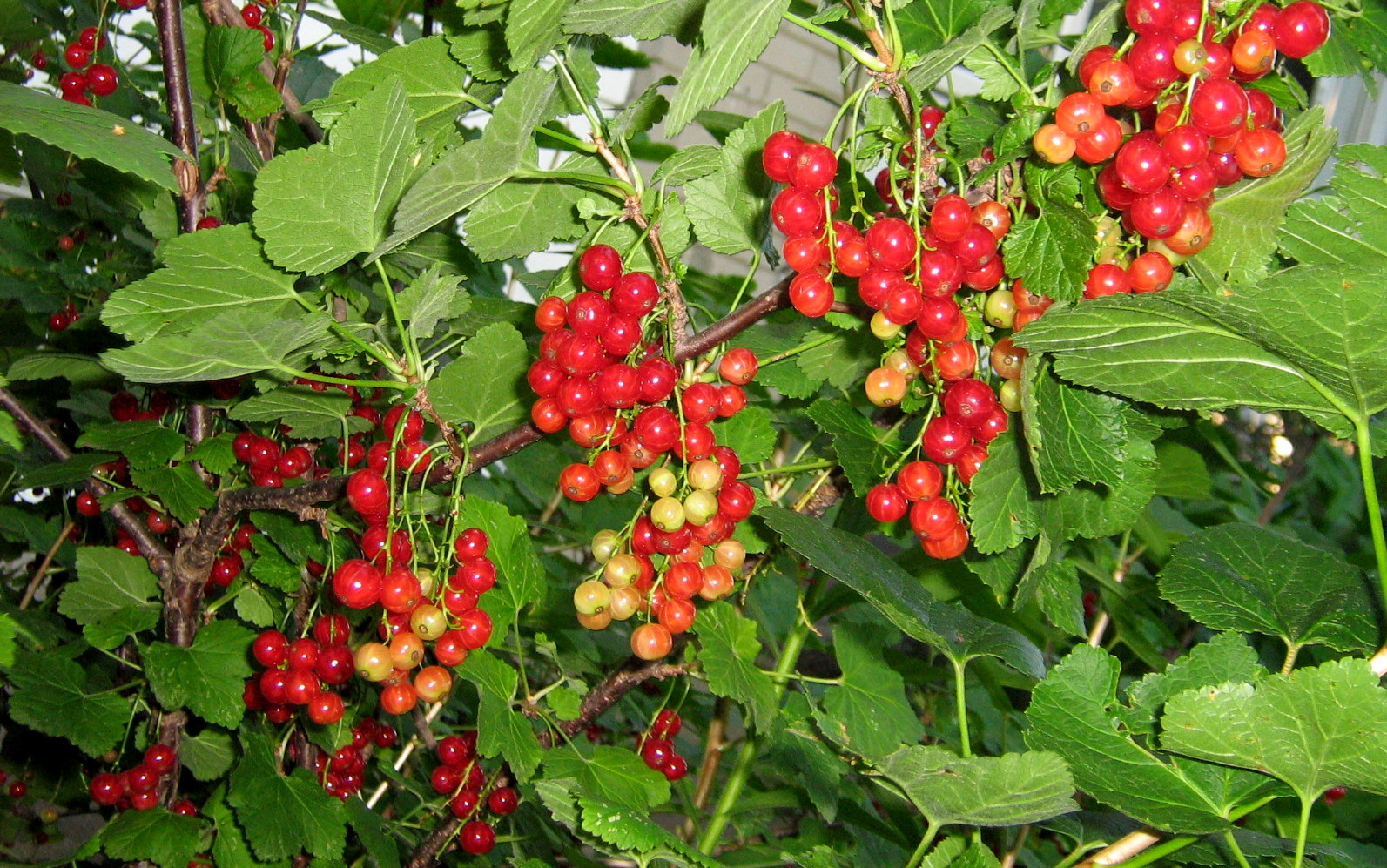 For Farsi language wikipage of قره‌قات (Redcurrant).